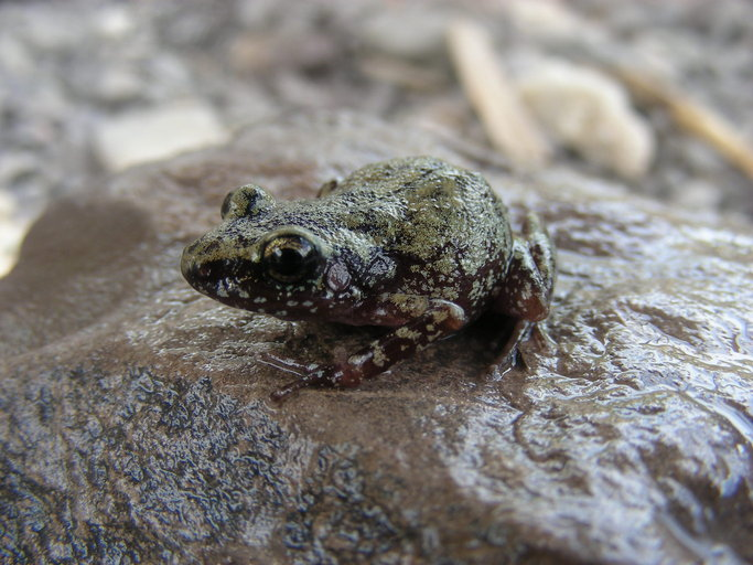 Eleutherodactylus pipilans from Presa hidroel�ctrica Bomban� (Soyal�, Chiapas, Mexico)